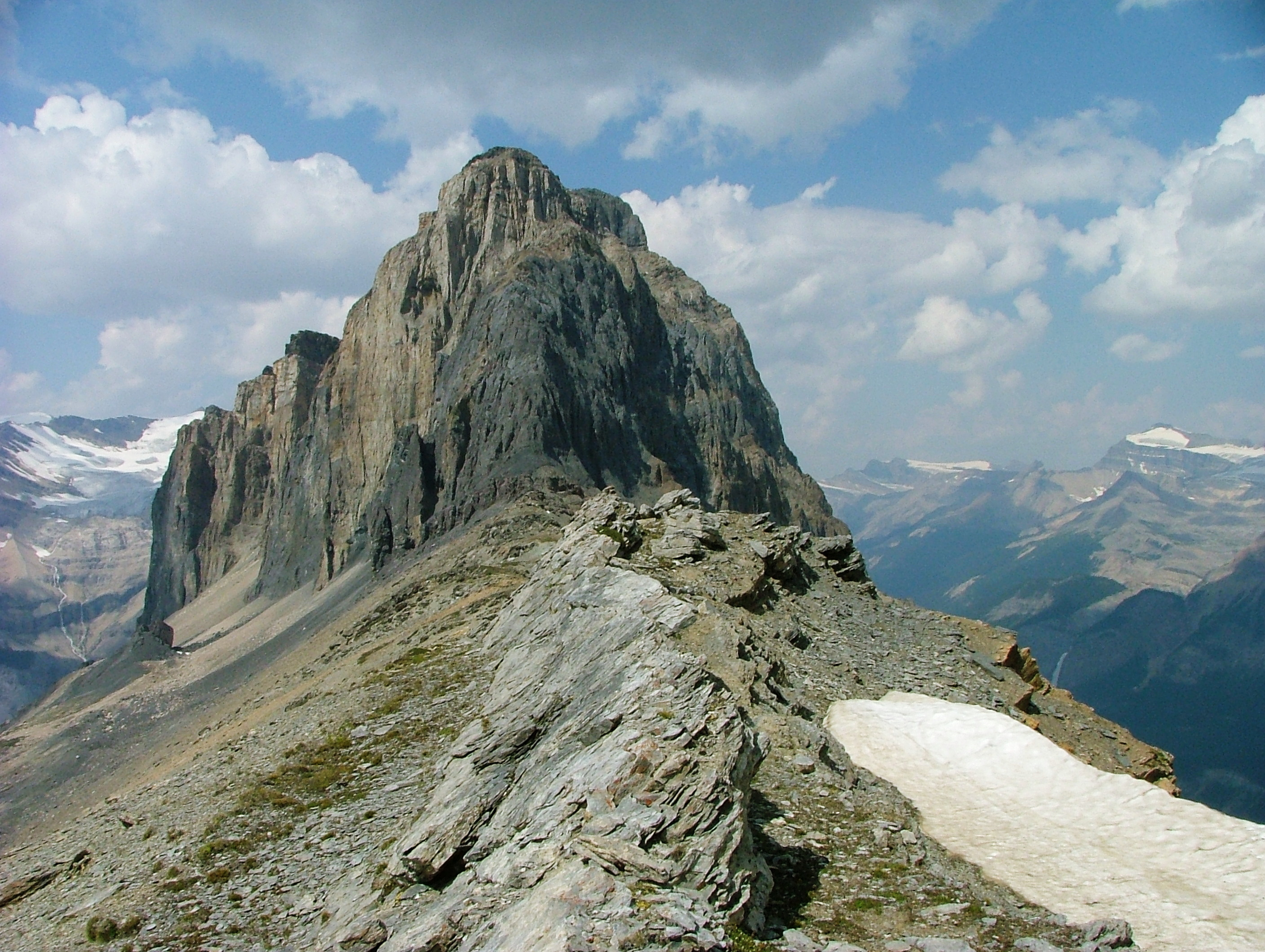 Wapta Mountain marks the termination of Fossil ridge, the seminal site of the famous Burgess Shale